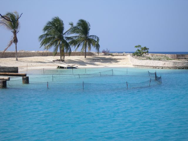 This is a photo I took myself in 2006 of James Bond Beach in Oracabessa, Jamaica.